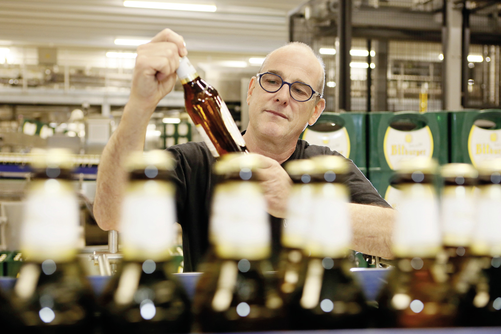 filling Bitburger Brewery